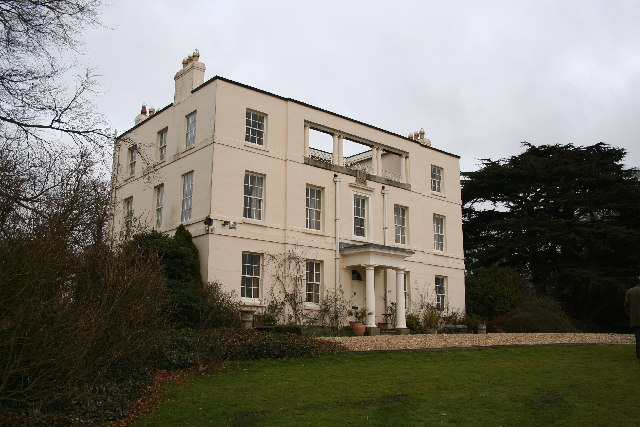 Kingerby Hall. On an ancient moated site, this house dates from 1812, built for James Young